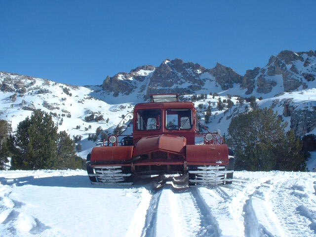 This is a picture of Mike Couch's Snow Master on a ski trip in Utah.